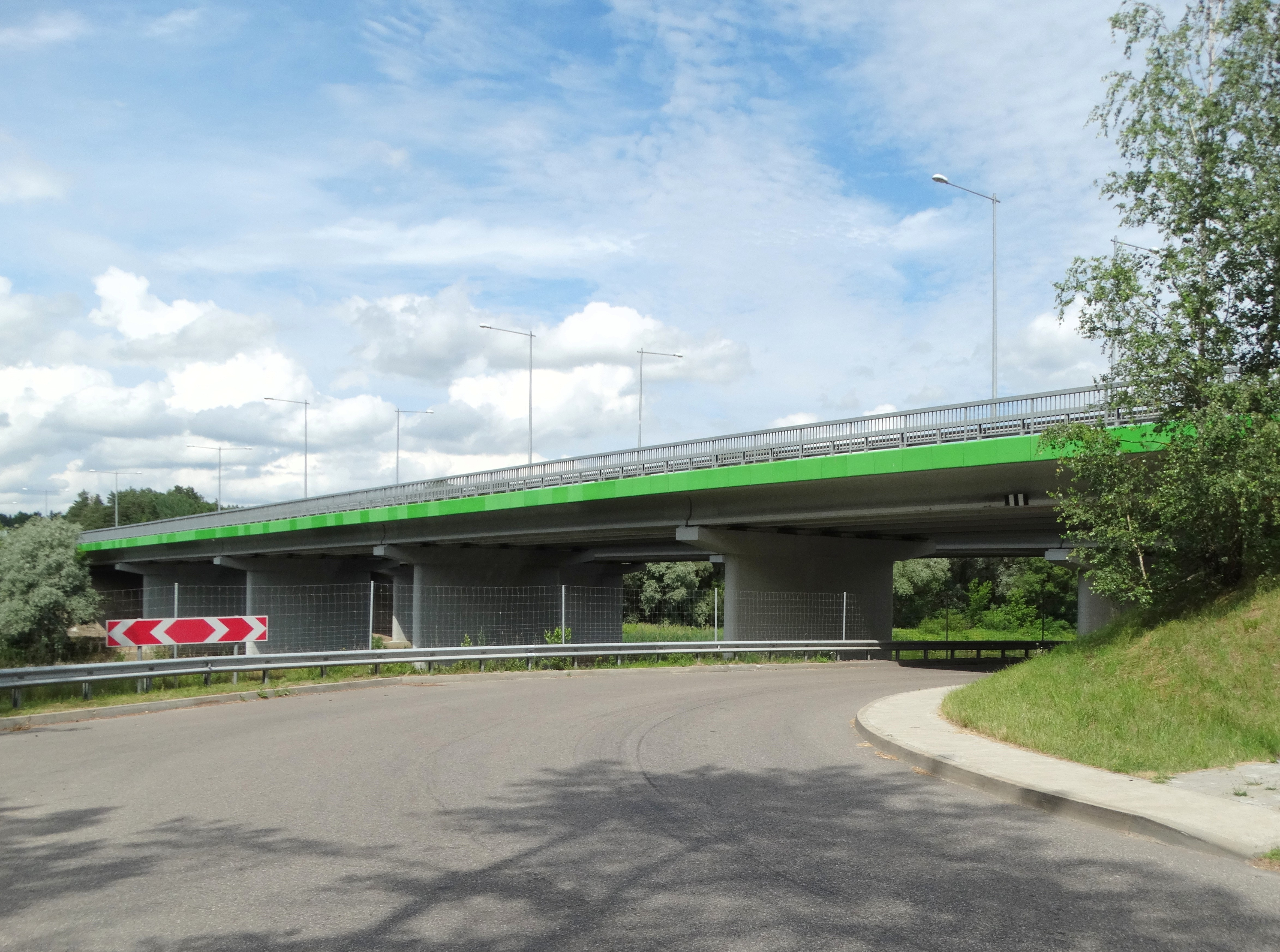 A2 highway bridge over the Šventoji River, by Ukmergė, Lithuania